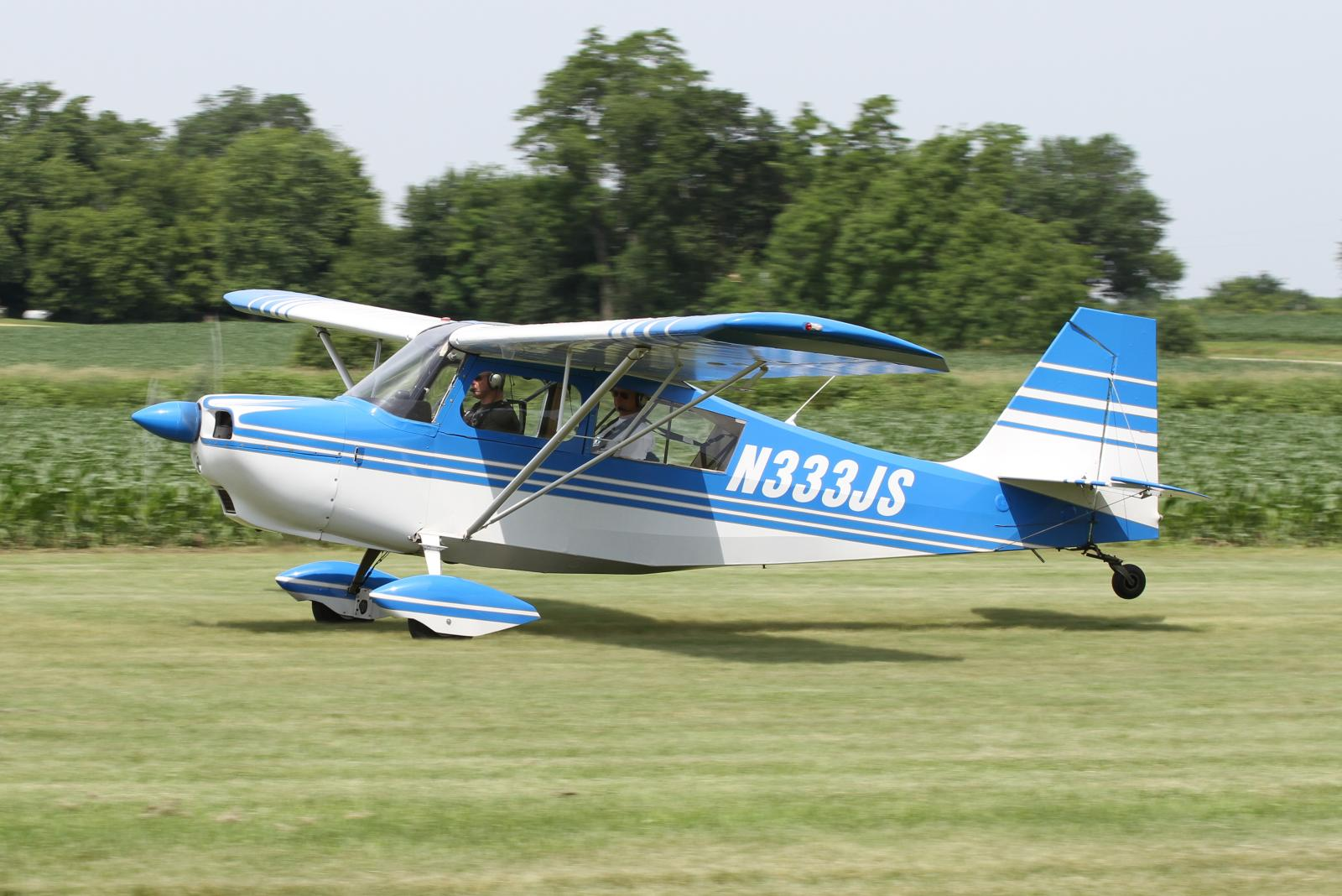 1977 Bellanca 7KCAB C/N 612-77; Big Foot Fly-In, Walworth, Wisconsin, June 25th 2011